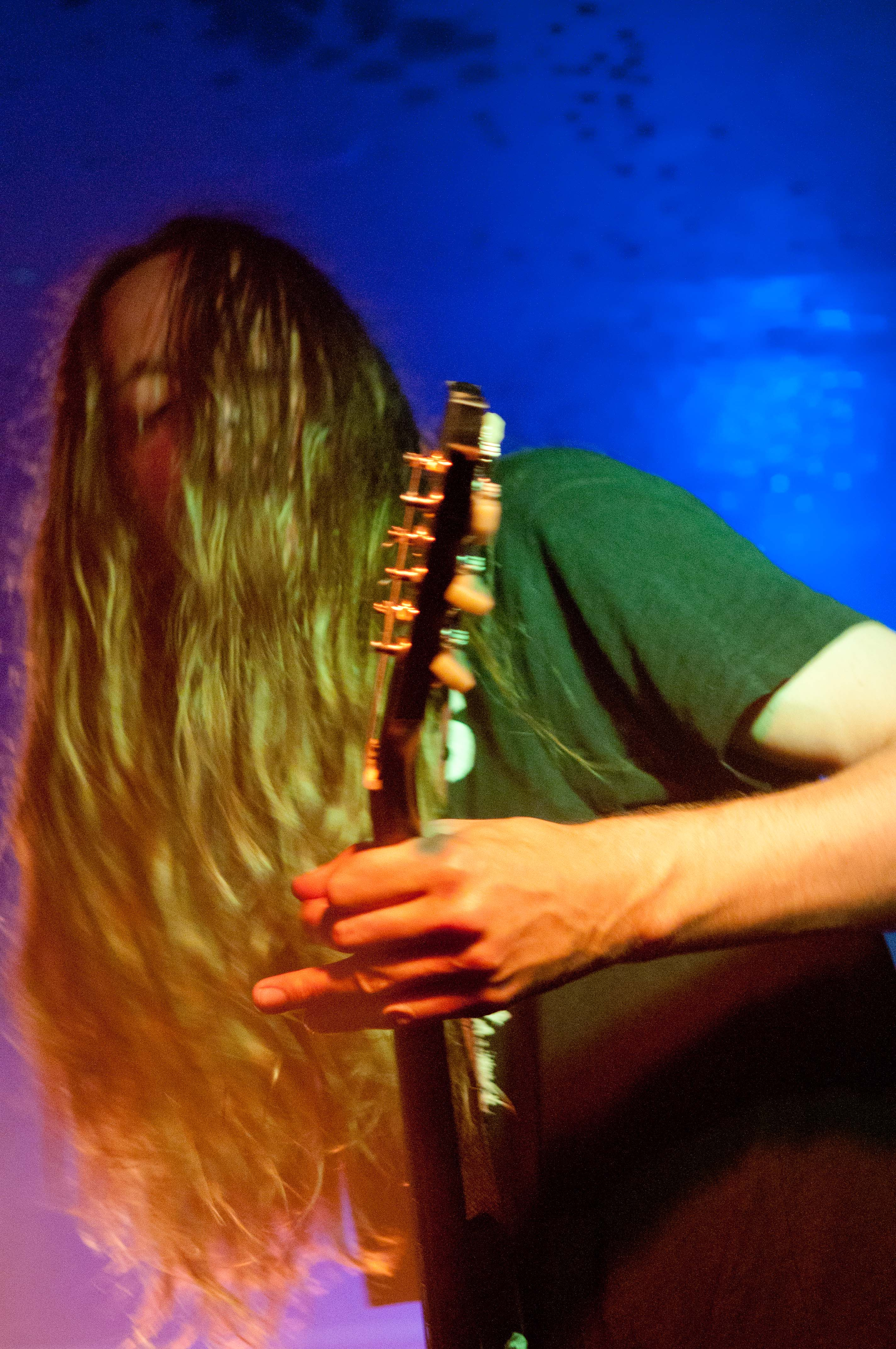 Anais photography Auckland concert TheDatsuns3